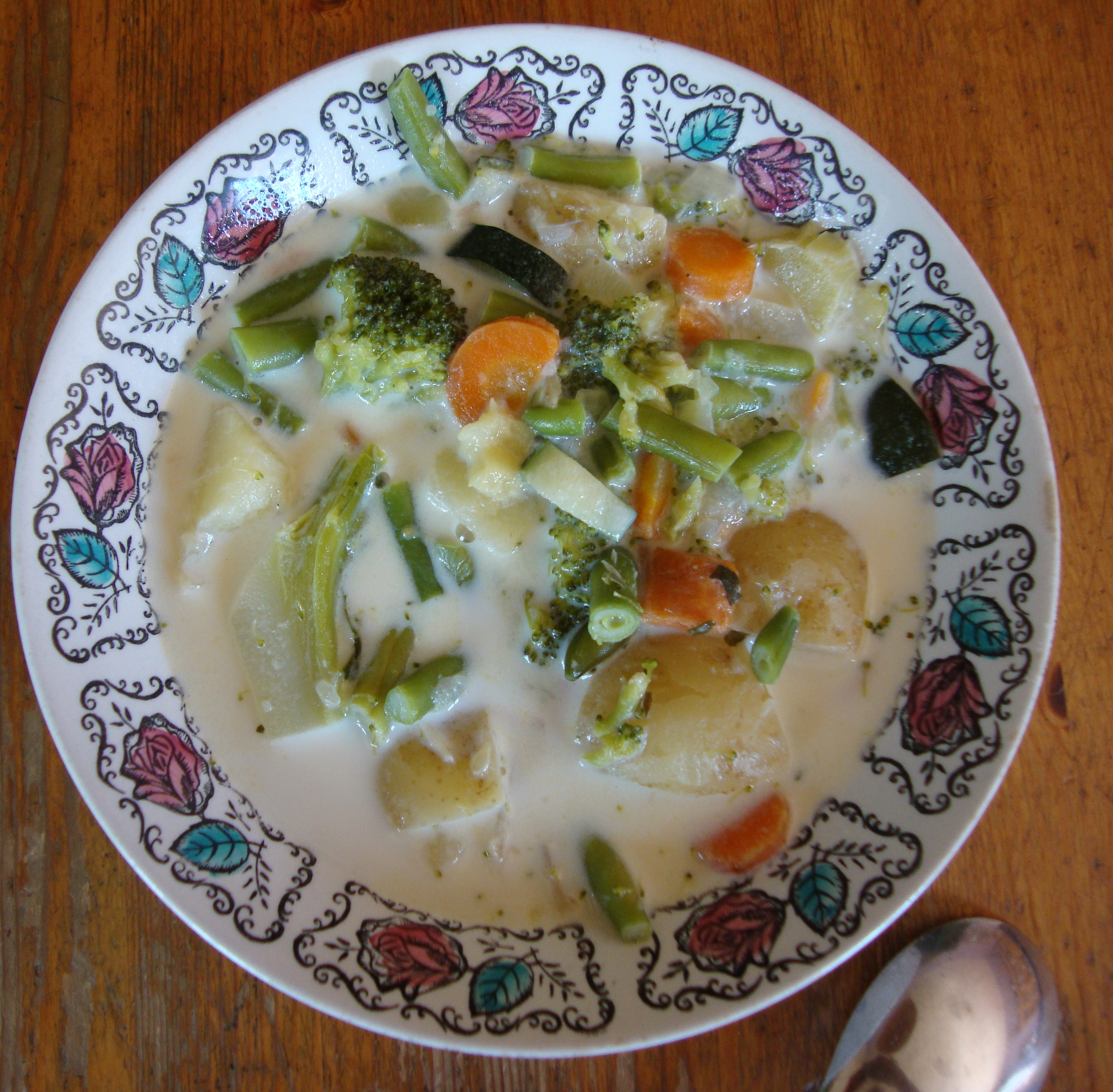 Finnish "summer soup" (kesäkeitto). Boil potatoes and some vegetables in a small amount of water, add milk and a some butter. Heat up again and season with spices and some salt: parsley and chives would be fine too. Suitable vegetables include carrots, cauliflower, broccoli, onion, peas, beans, potatoes, etc.